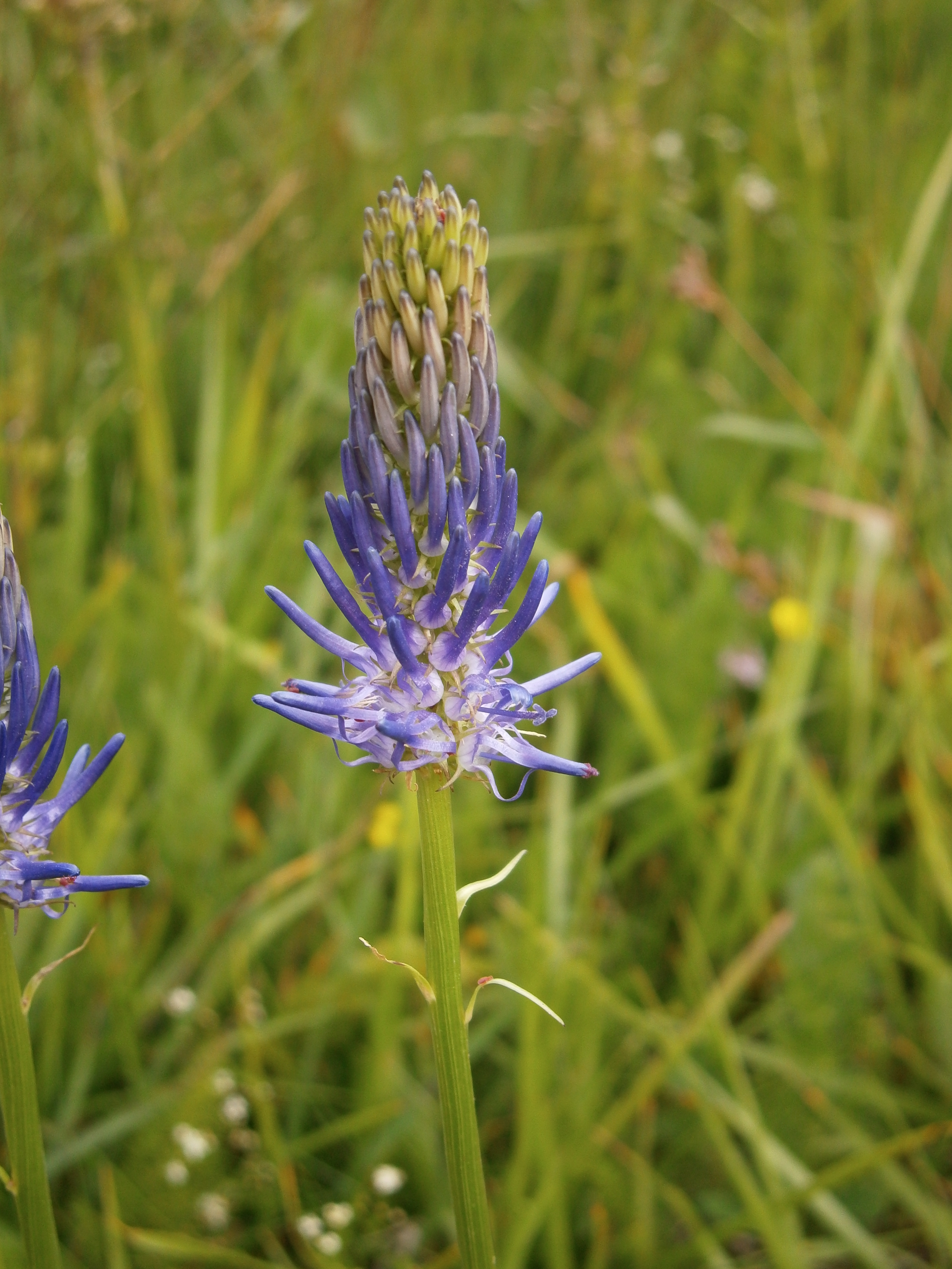 Phyteuma scorzonerifolium